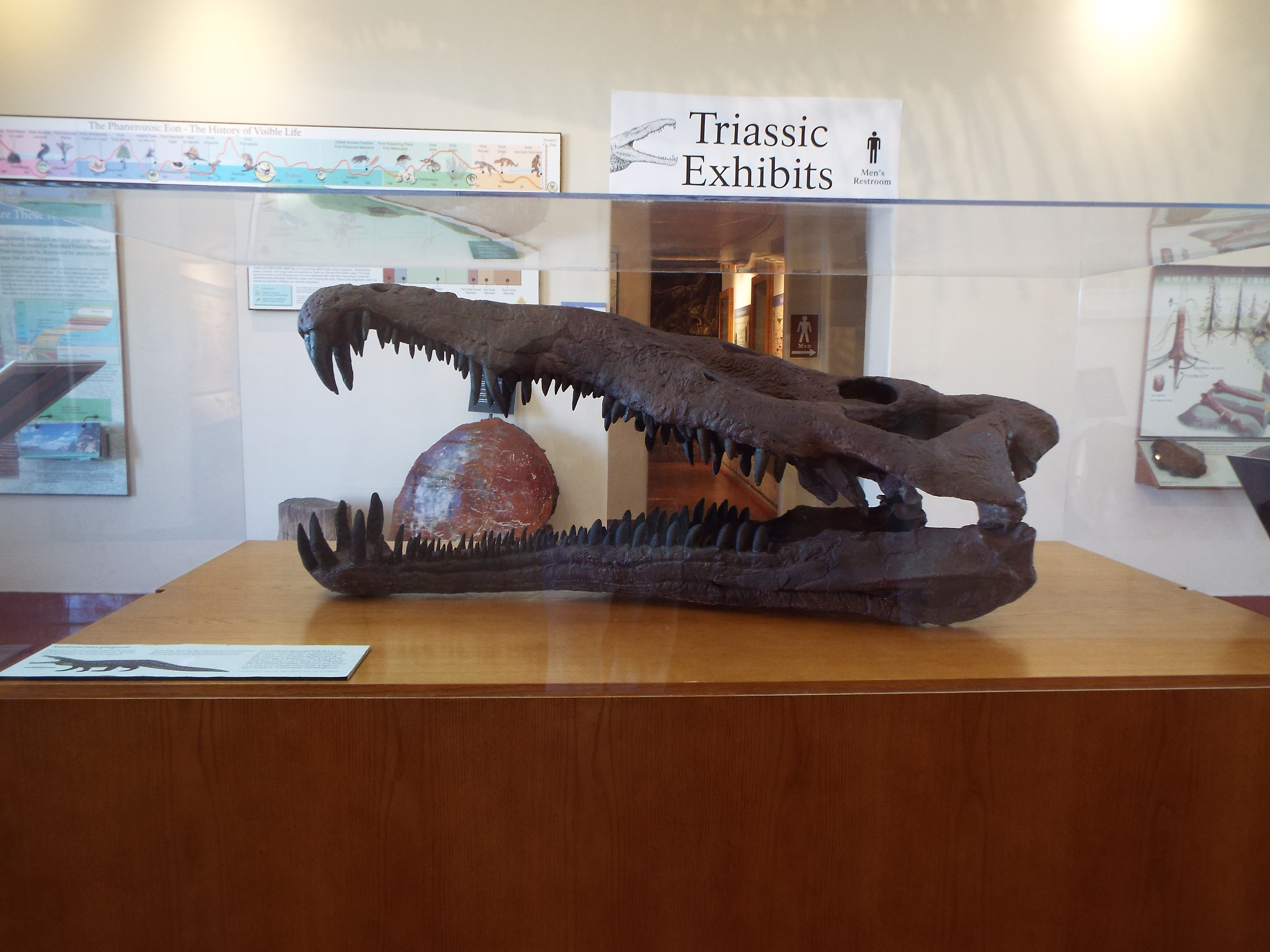 Exhibit in the Rainbow Forest Museum in the Petrified Forest National Park